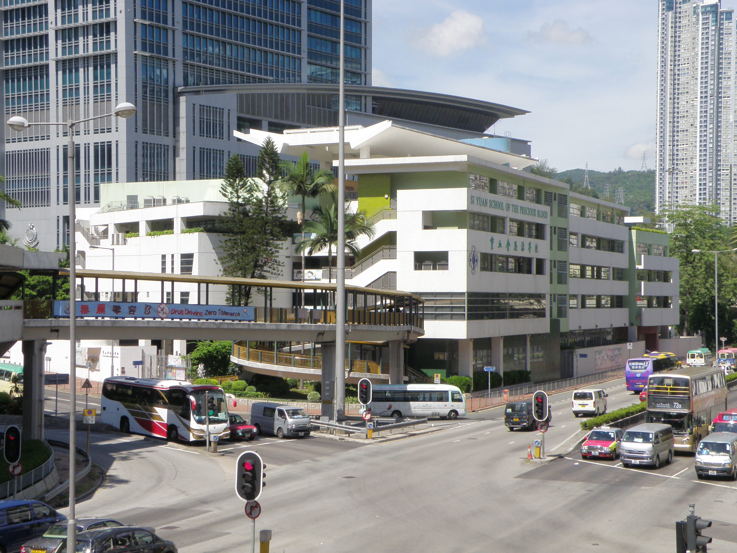 Si Yuan School of the Precious Blood in Tai Wo Hau, Hong Kong.